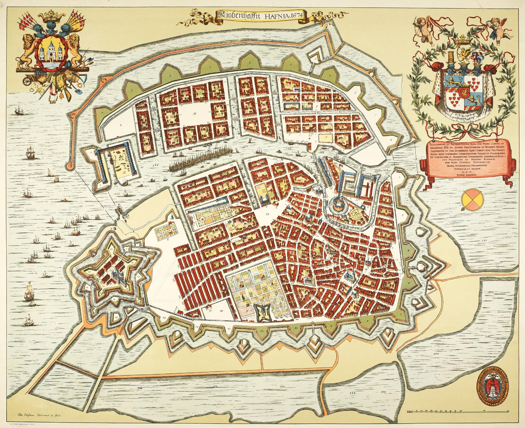 Peder Hansen Resens map of Copenhagen from 1674 published in Atlas Danicus in 1677.